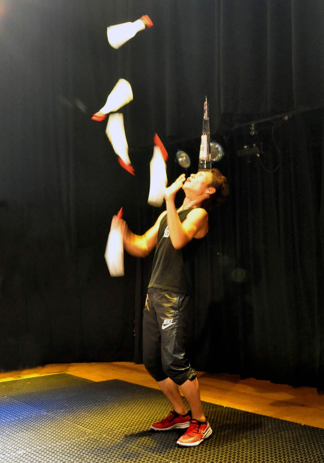 KATSU NUMBERS Flair Performance"5BOTTLE 1HEAD"